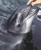 A Harbour Porpoise